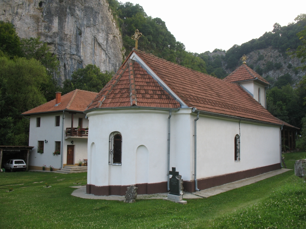 Vratna monastery from XIV century, near Vratna river on Veliki Greben mountain, Serbia.